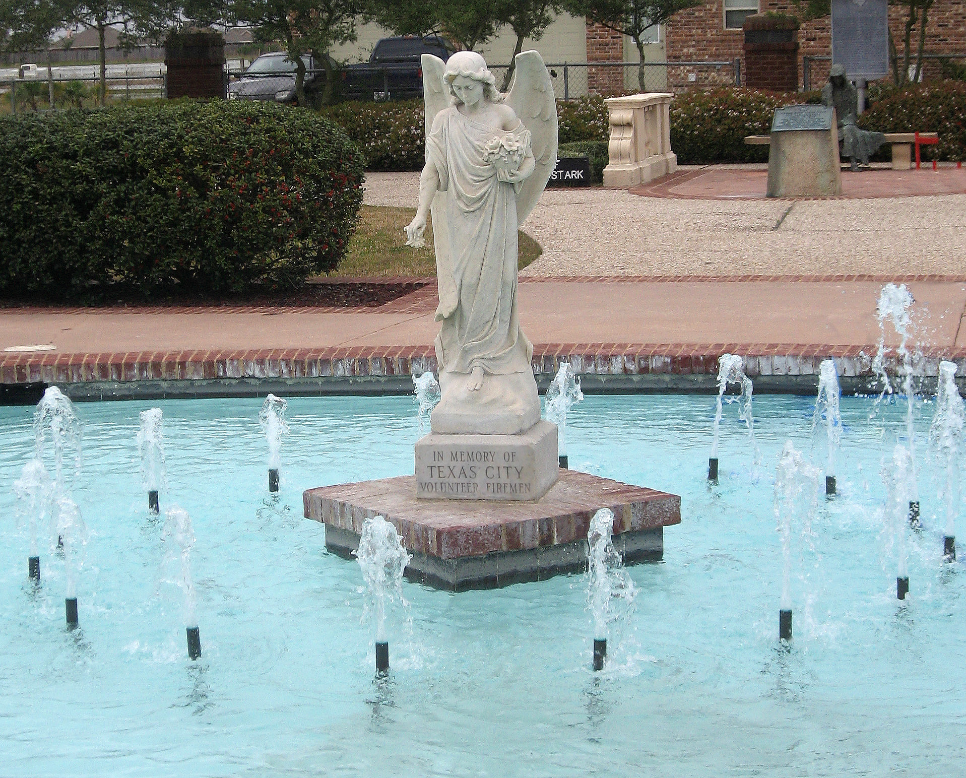 Memorial to Texas City firemen who died in the Grandcamp disaster. Most of the Texas City Fire Department and hundreds of other people died that day. It's the worst industrial accident in U.S. history.